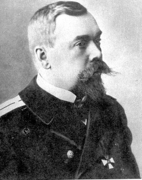 Russian vice-admiral, last Commander-in-Chief of the Imperial Baltic Fleet